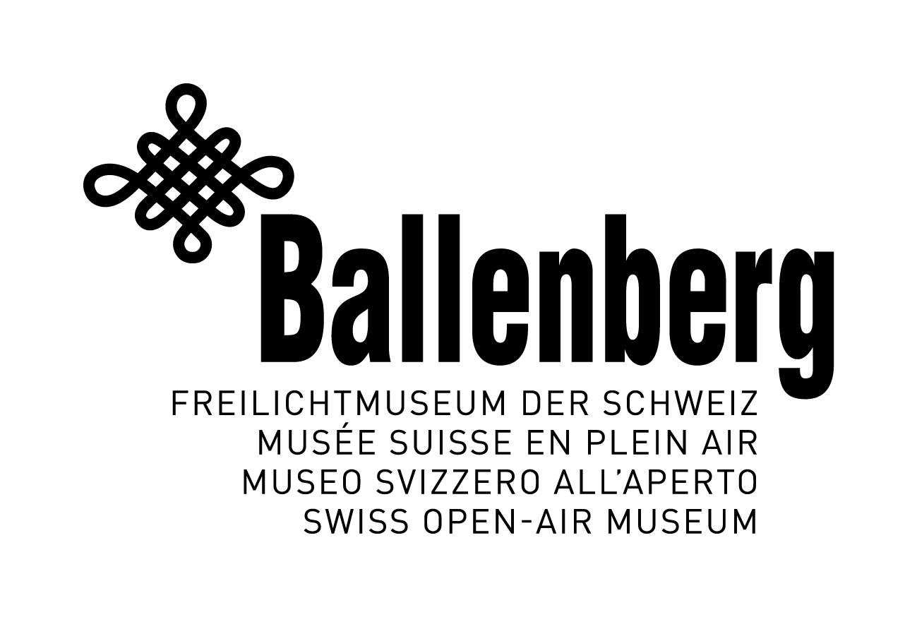 Logo of the Swiss Open-Air Museum Ballenberg after the Relaunch of 2015